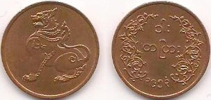 A Burmese 1 pya coin from 1953.